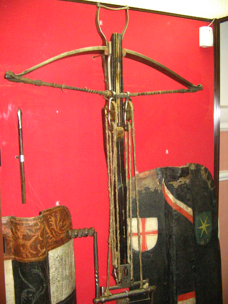 heavy Crossbow